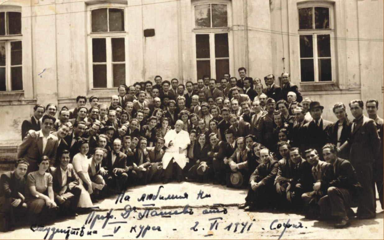 Professor Konstantin Pashev in Sofia 1941